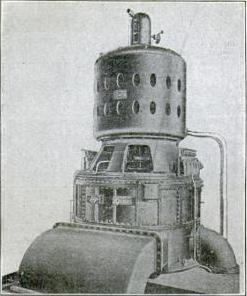 2000 K. W. Curtis steam turbine circa 1905.